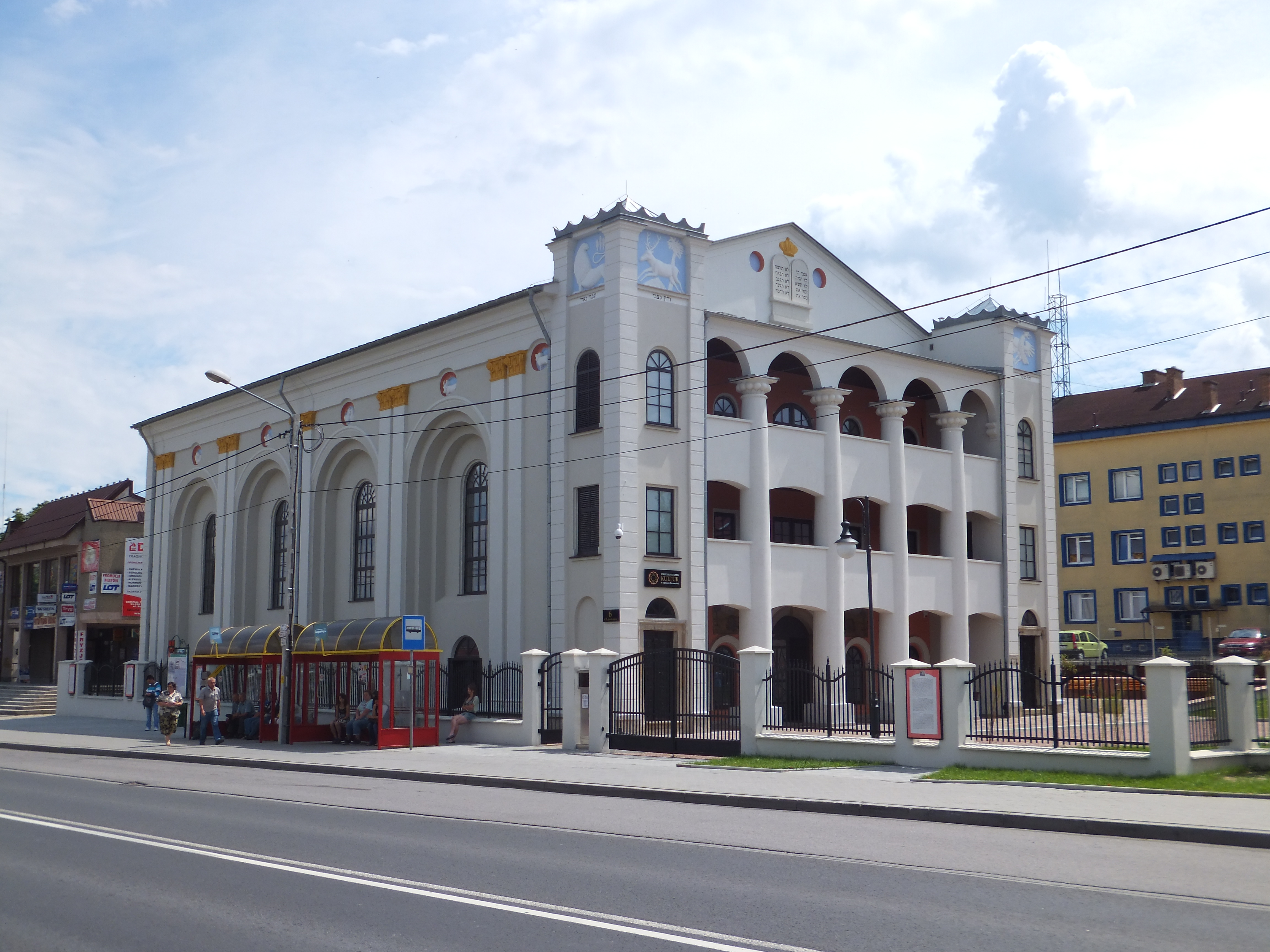 Old synagogue in Dąbrowa Tarnowska (Poland) after renovation.